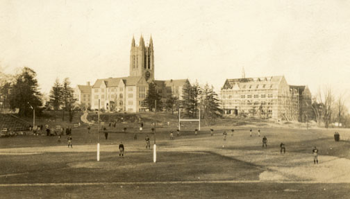 Boston College Alumni Field, ca. 1920 Category:Boston College Category:Boston College Athletics Category:Boston College Eagles football